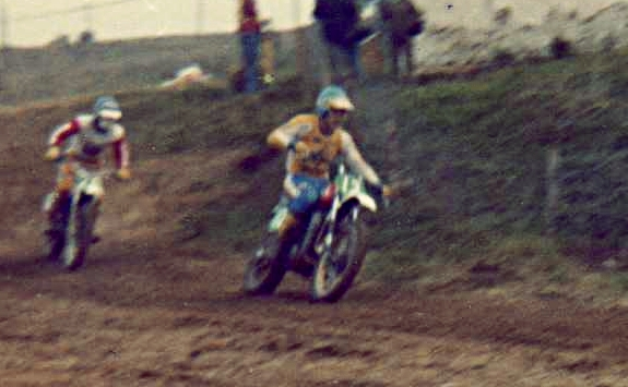 Hakan Carlqvist (Husqvarna) followed by Fernando Muñoz (Montesa) while practicing at Circuit del Vallès, Sabadell-Terrassa (Catalonia), during the 1978 spanish MX GP 250cc. This is a cropped version of the original picture